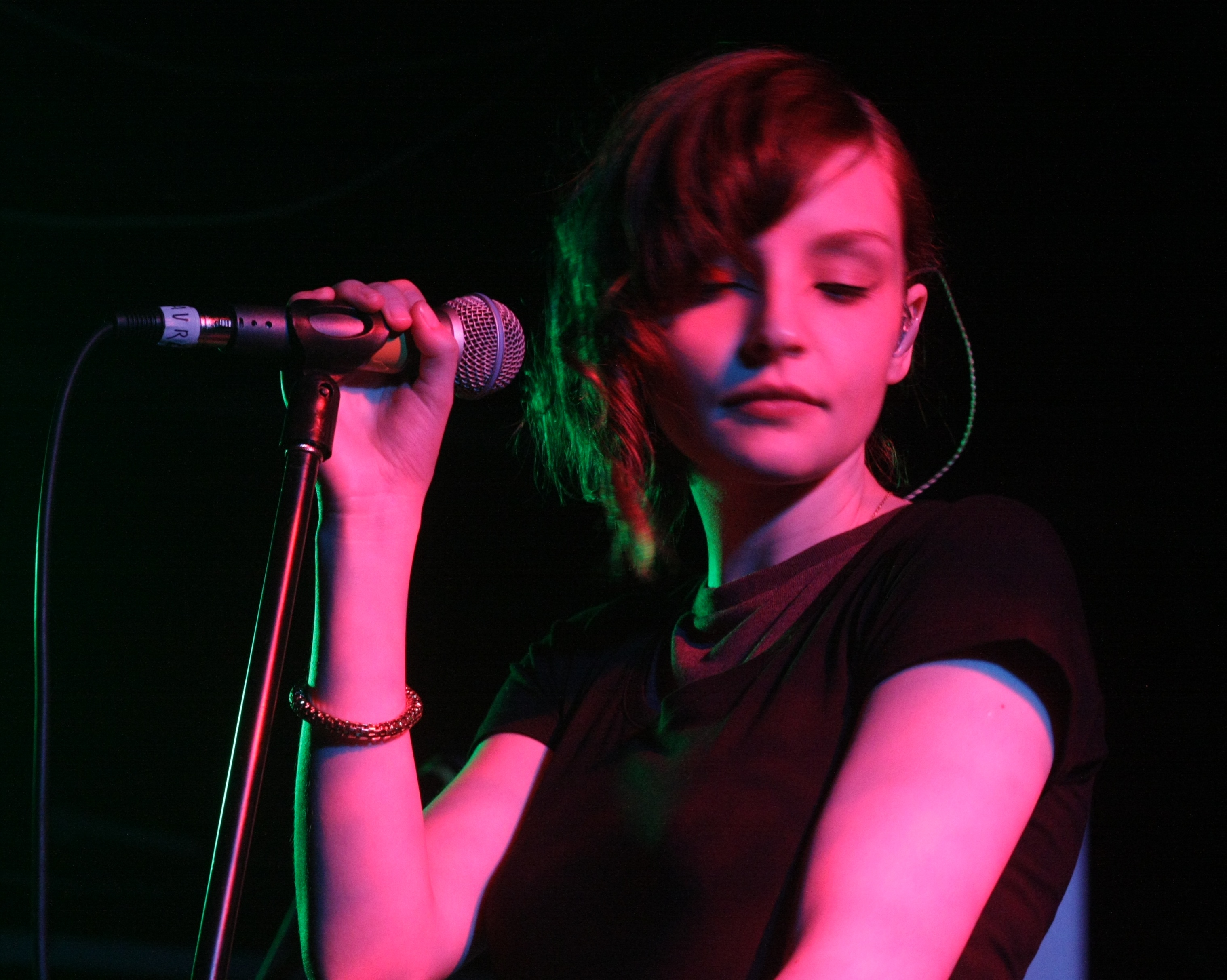 Chvrches @ Electrowerkz